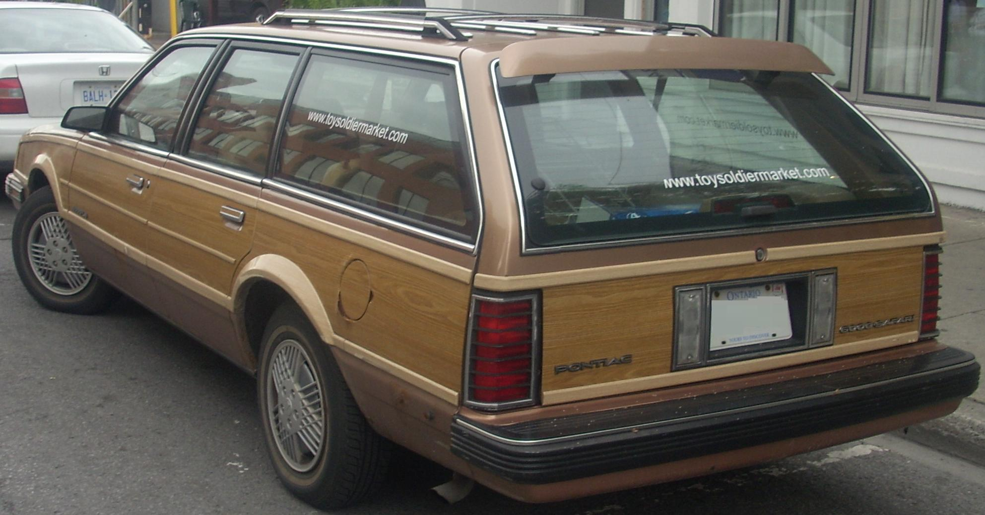 1989-1991 Pontiac 6000 Safari photographed in Ottawa, Ontario, Canada at the Byward Market Auto Classic 2009.